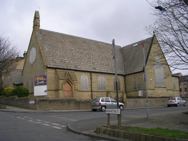 St Philip's parish church, Girlington, Bradford, West Yorkshire, at the junction of Washington Street (foreground and left) and Thorn Street (right)